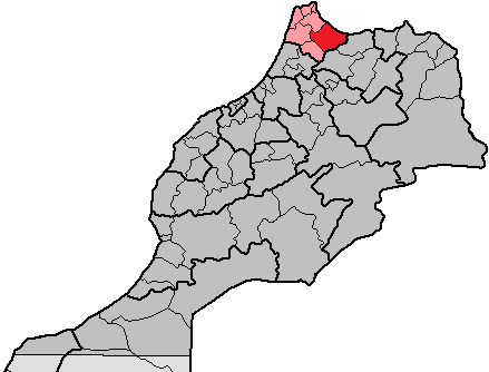 Location of the province Chefchaouen within the region Tanger-Tétouan, Morocco. In total, Morocco has 16 regions, subdivided into 62 provinces and 13 prefectures.